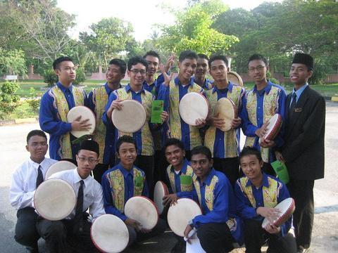 Kompang Batch 0408